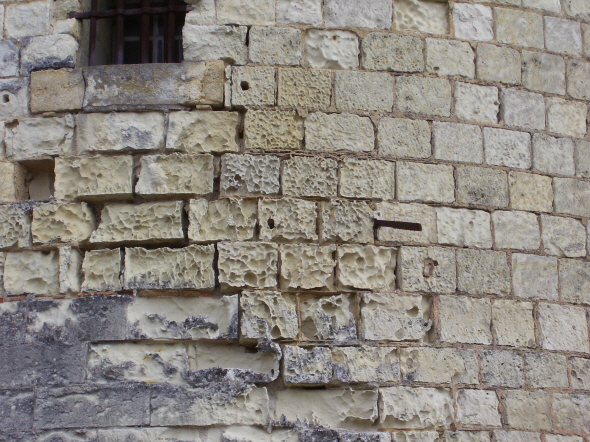 Alveolization of Limestone at Saumur castle.